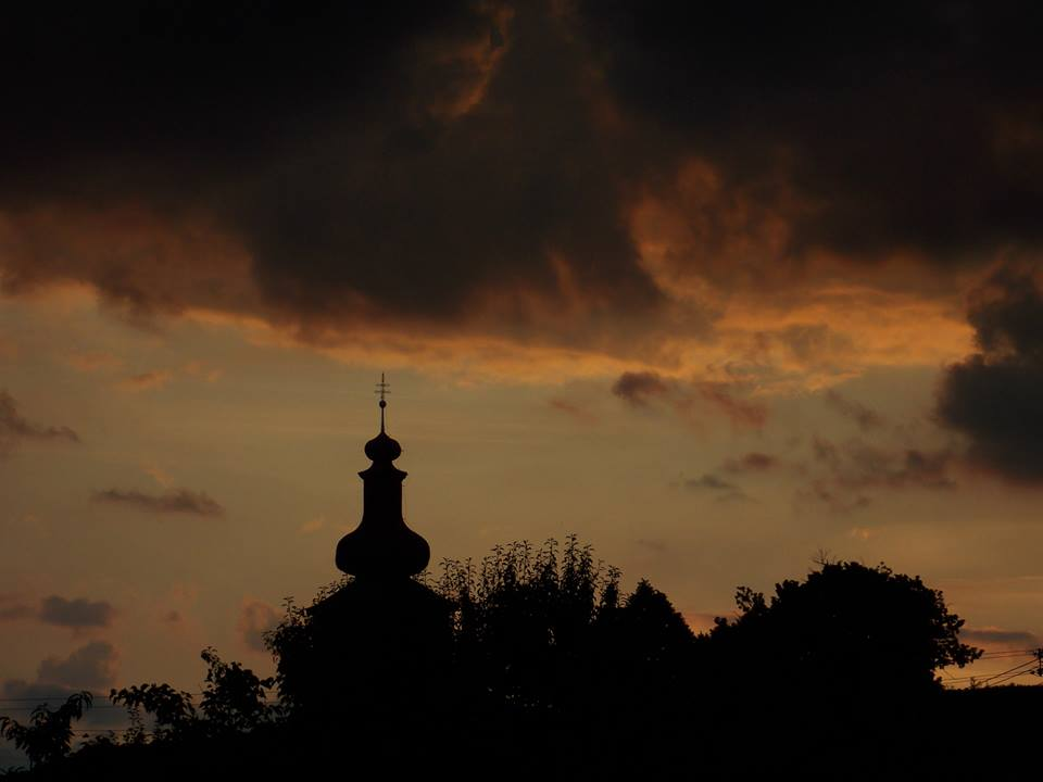 Roman Catholic Church of St. HavelSlovenčina: Rímskokatolícky kostol sv. Havla